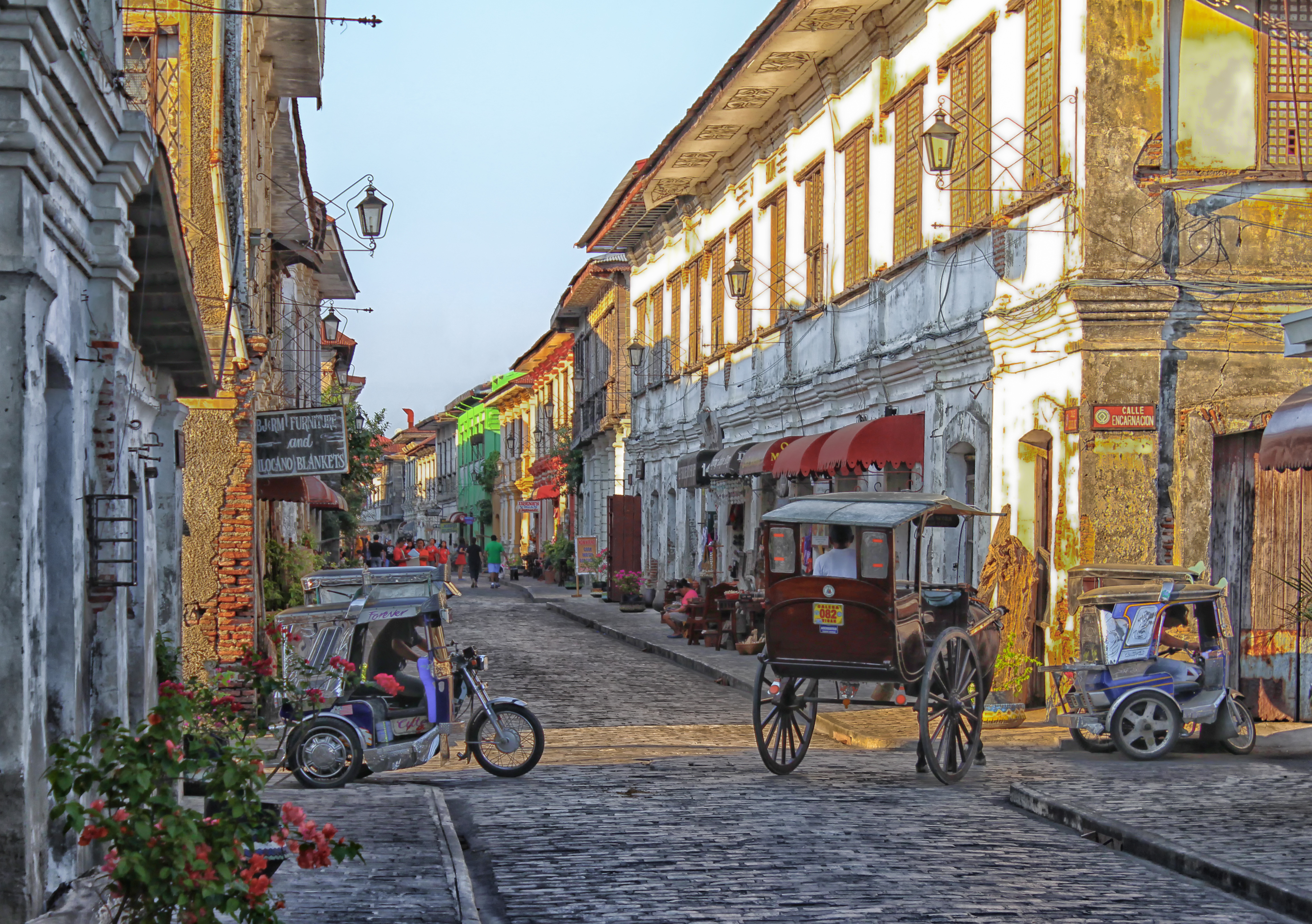 The City of Vigan is a Unesco World Heritage Site in that it is one of the few Hispanic towns left in the Philippines where its structures remained intact, and is well known for its cobblestone streets, and a unique architecture that fuses Philippine and Oriental building designs and construction, with colonial European architecture. Because of this, Vigan City was officially recognised as one of the New 7 Wonders Cities of The World.